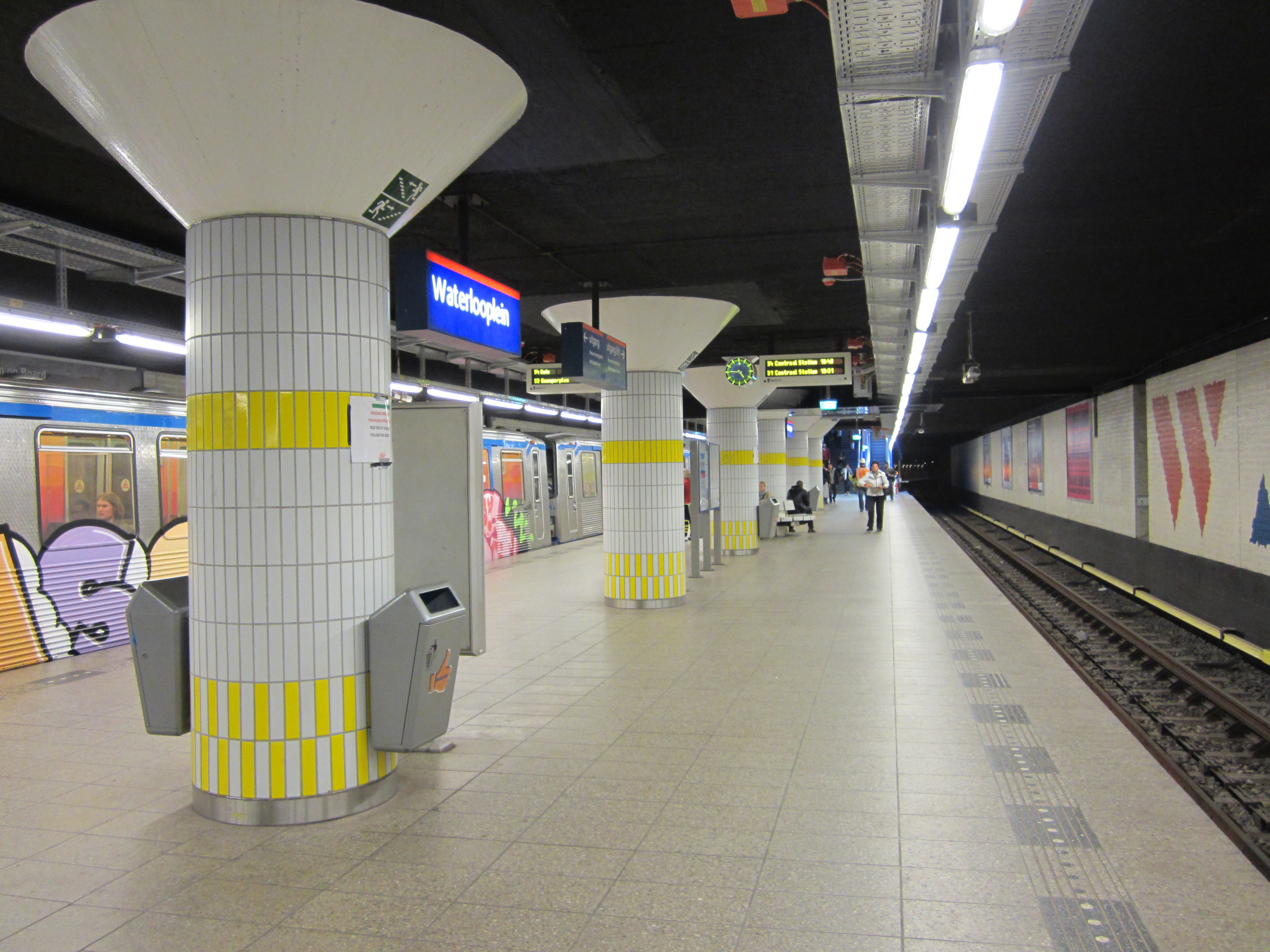 Waterlooplein metro station in October 2011